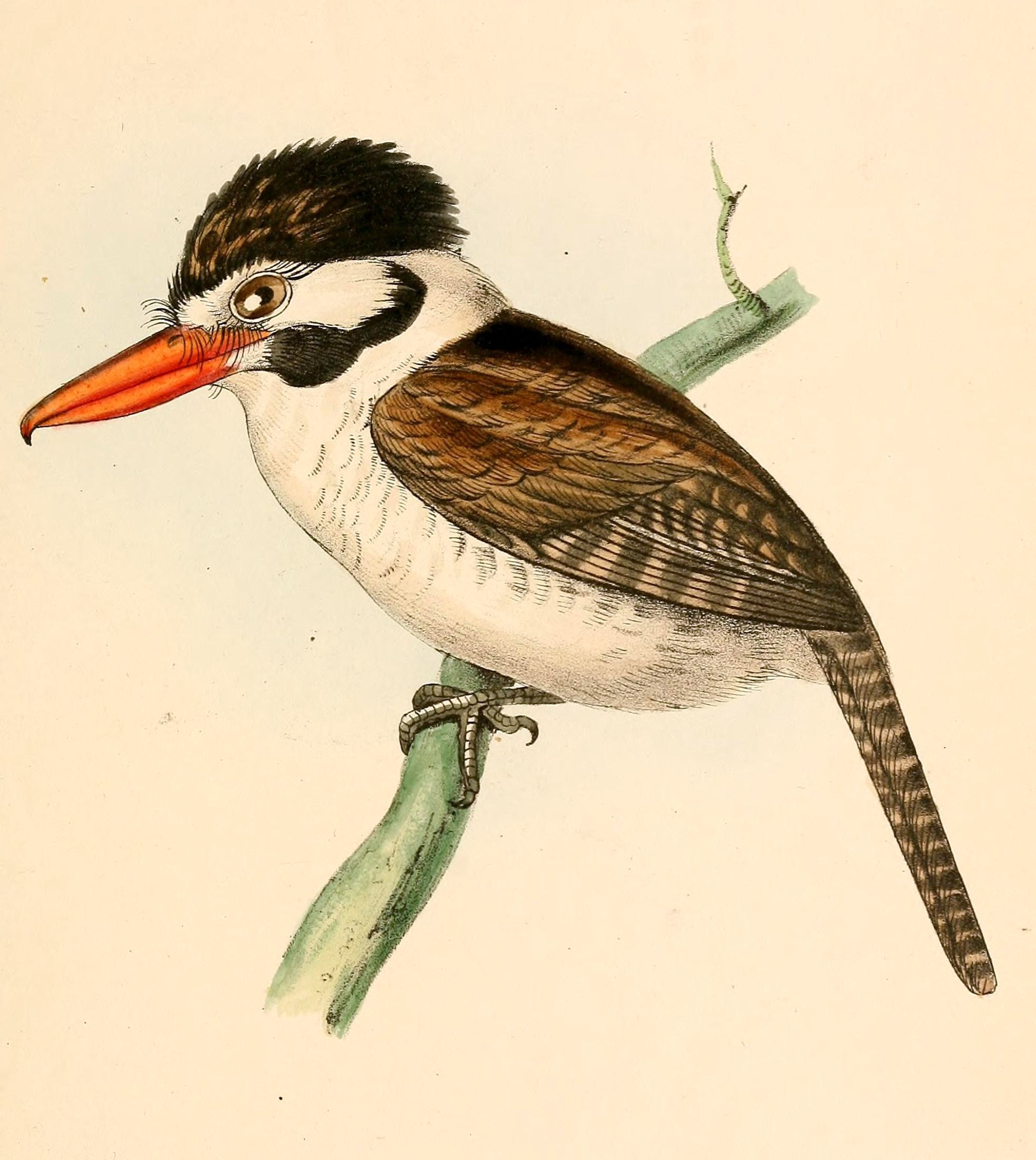 Tamatia leucotis = Nystalus chacuru chacuru (Subspecies of White-eared Puffbird)